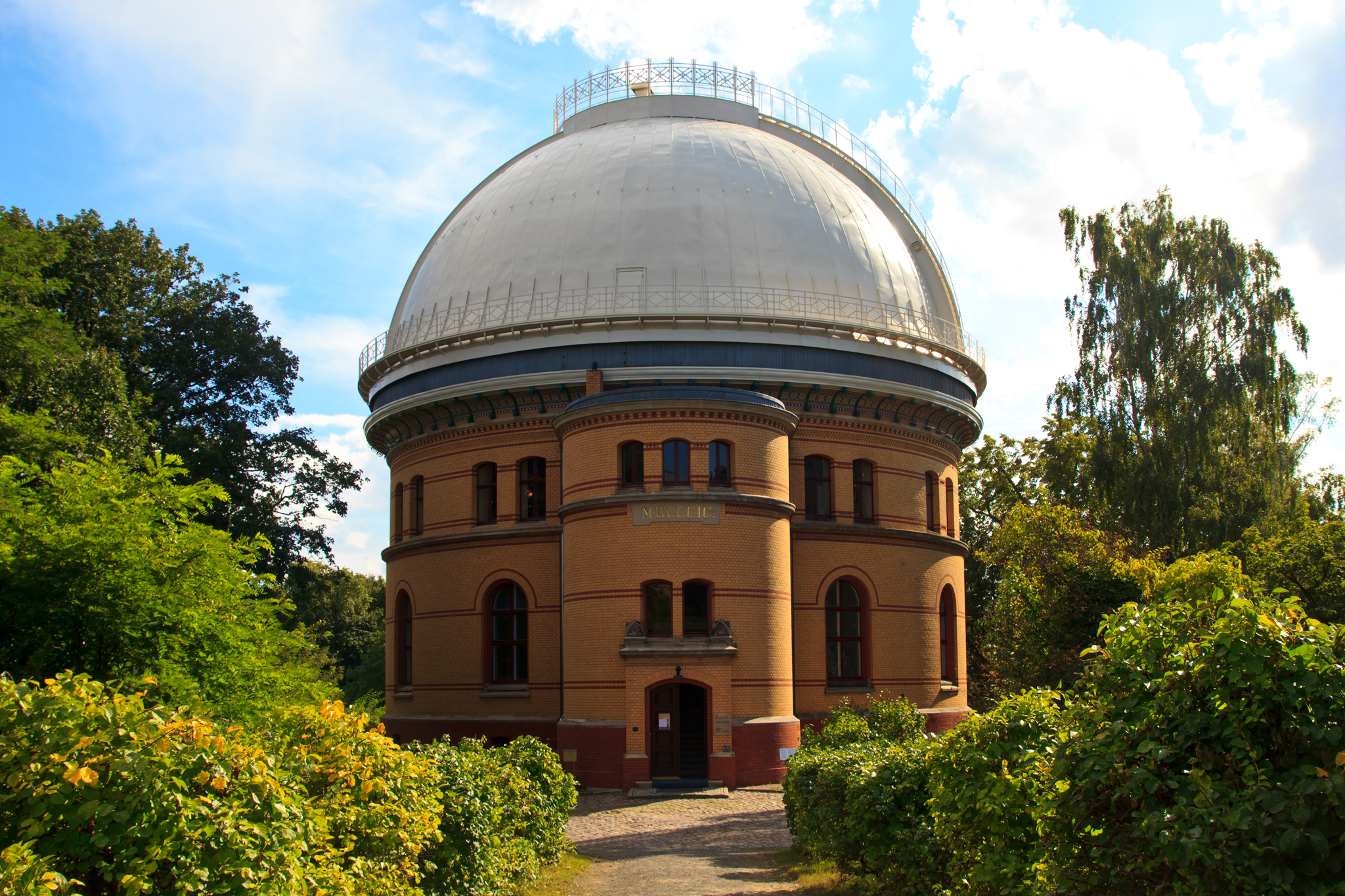 Dome of the Great Refractor at the Astrophysical Observatory Potsdam (AOP), Germany. The diameter of the dome is 21 m, the mass 200 tons. The telescope and it's dome were renovated in 1986-2005.